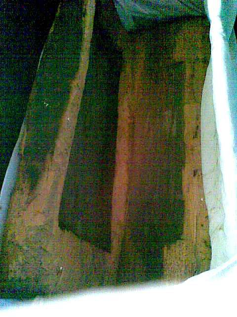 Pepadun